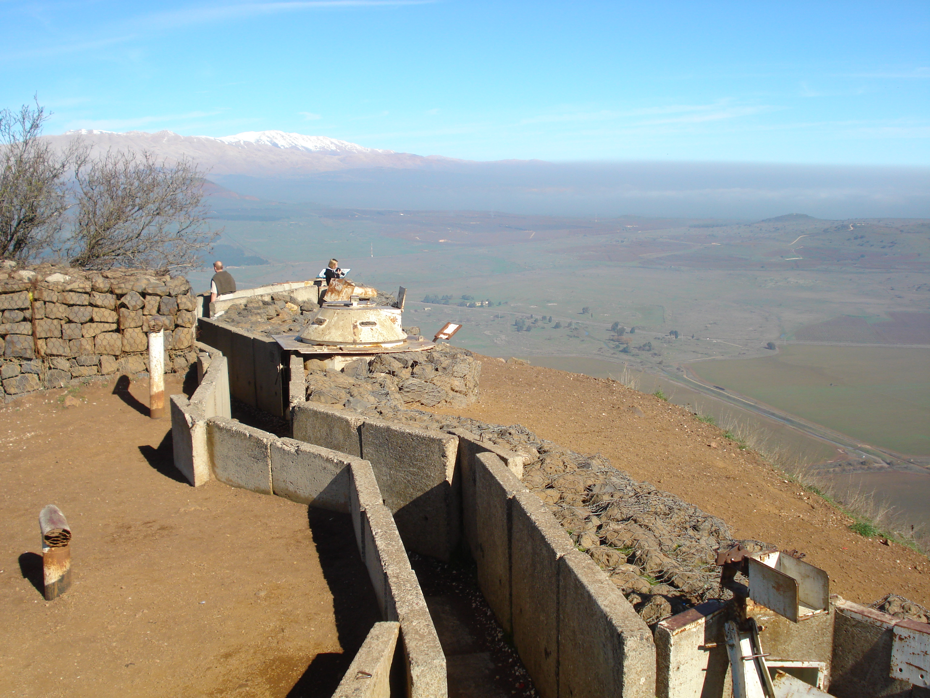 December 2009 in Jordan & Israel tourist sites